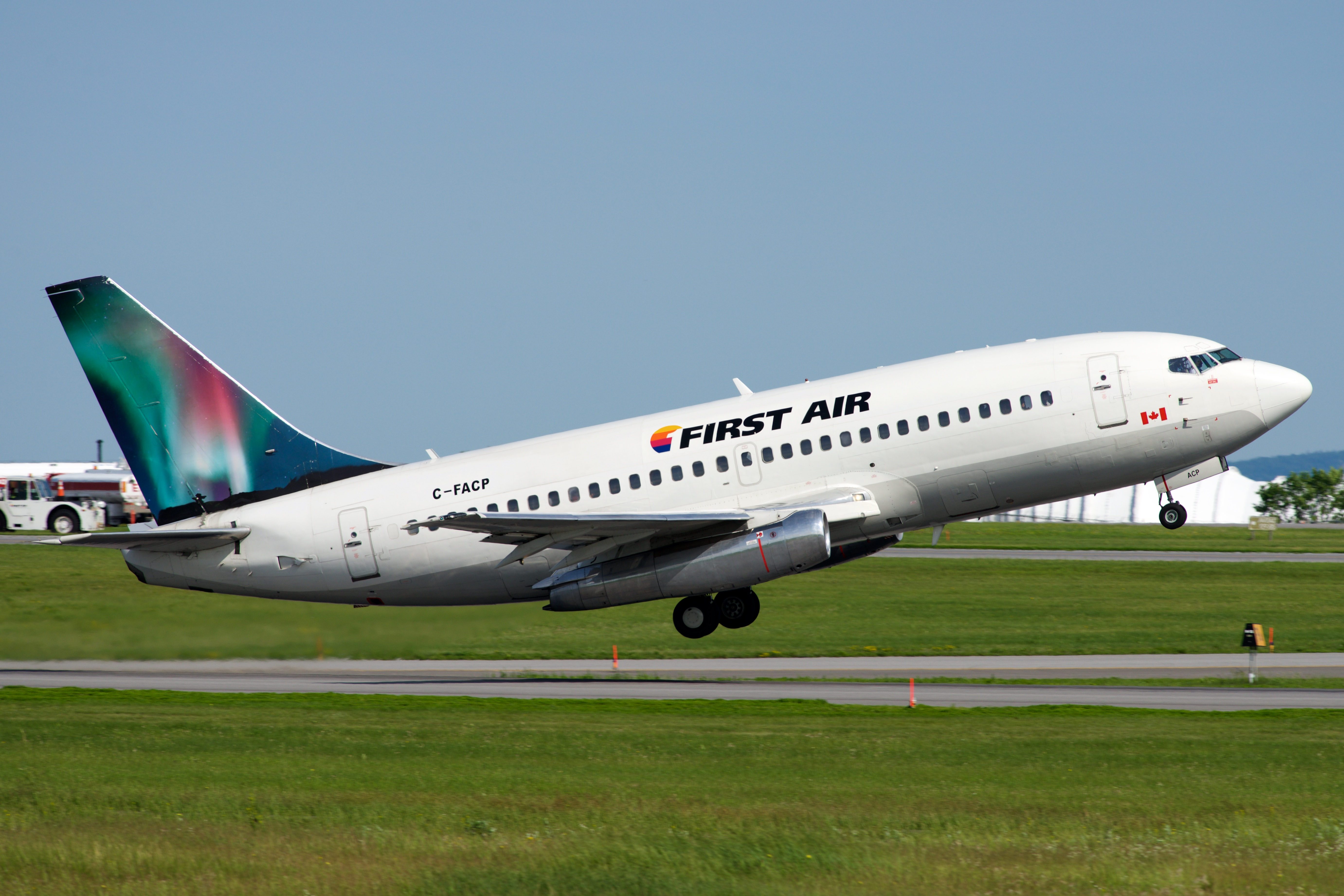 Old Classic departing YOW